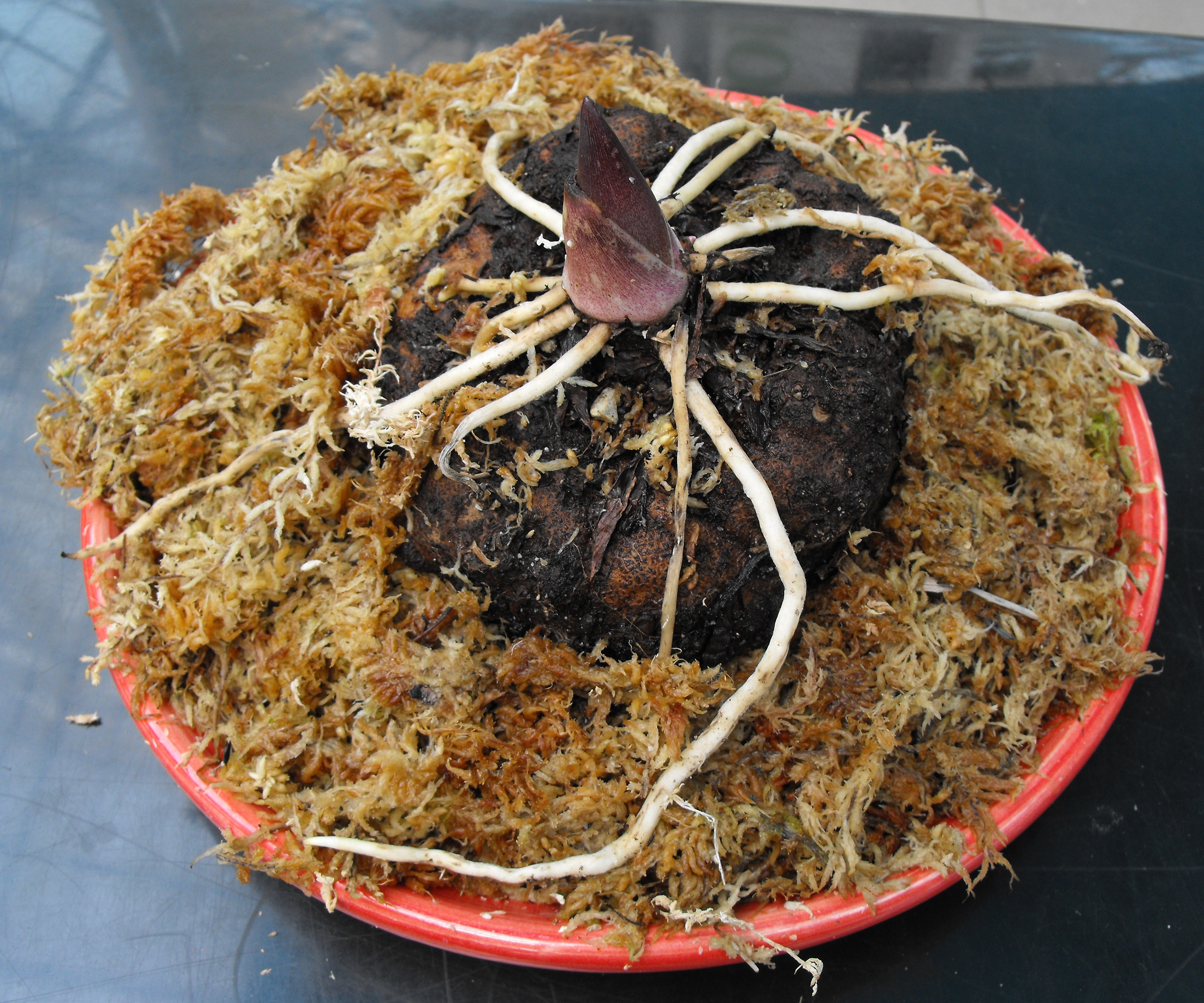 The corm of Amorphophallus titanum at the Huntington Library & Botanical Gardens in San Marino, California, USA.